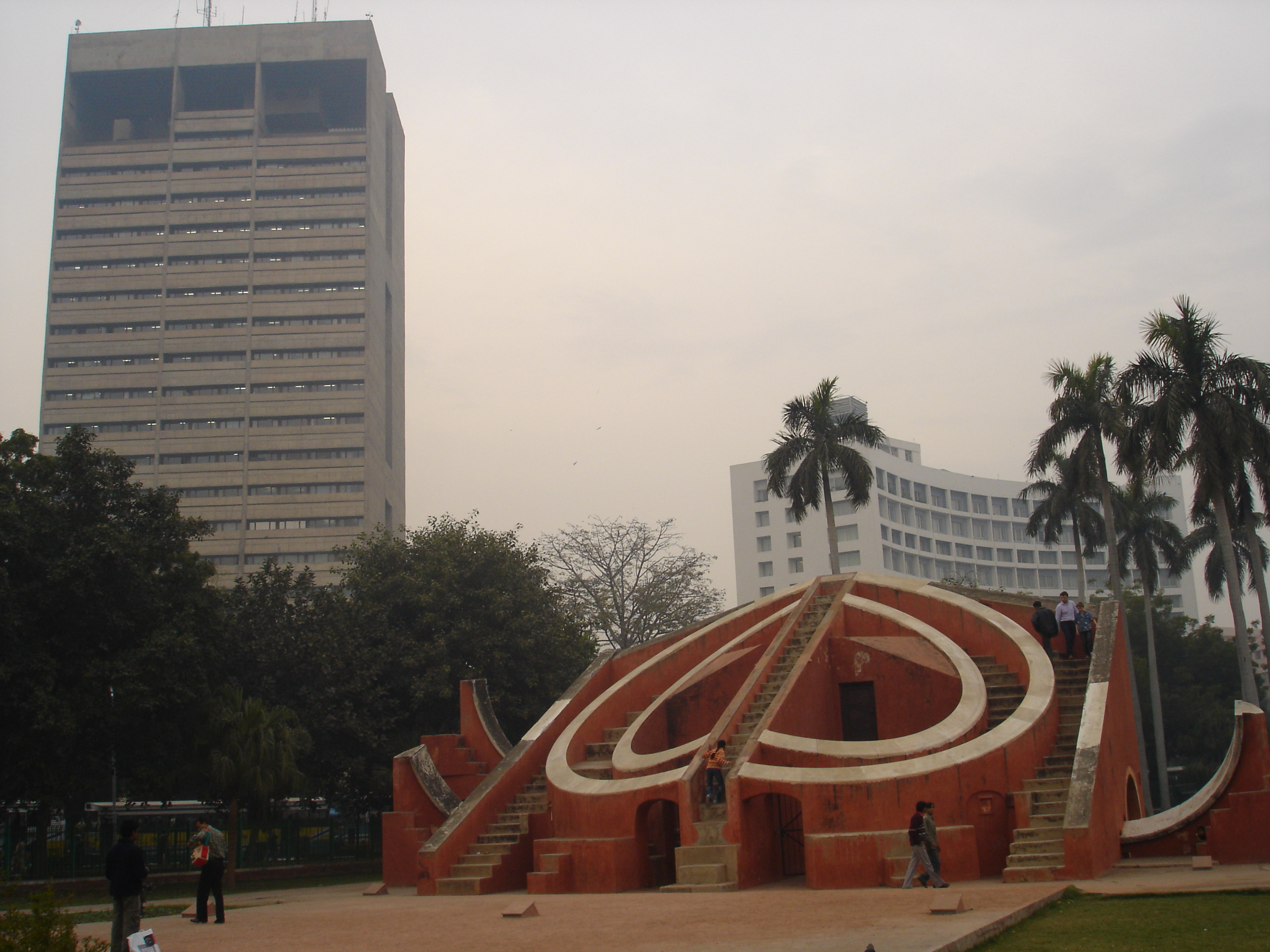 The Samrat Yantra in New Delhi